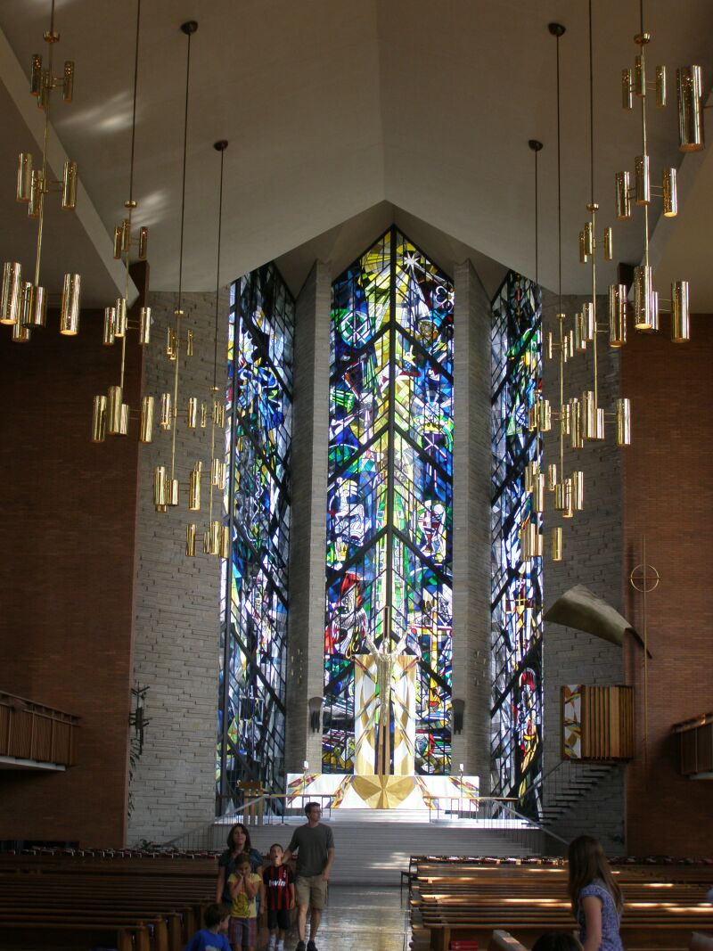 Stained glass window (95 ft. high) and marble-intarzia altar in the Chapel of the Resurrection, designed by Peter Dohmen Studios, for Valparaiaso University, Indiana